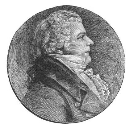 Portrait miniature of United States Representative from Virginia Hugh Nelson (1768-1836), from a painting in the possession of Dr. Richard Channing Moore Page, author of 'Genealogy of the Page Family in Virginia,' published by the Publishers' Printing Company, New York City, 1893.